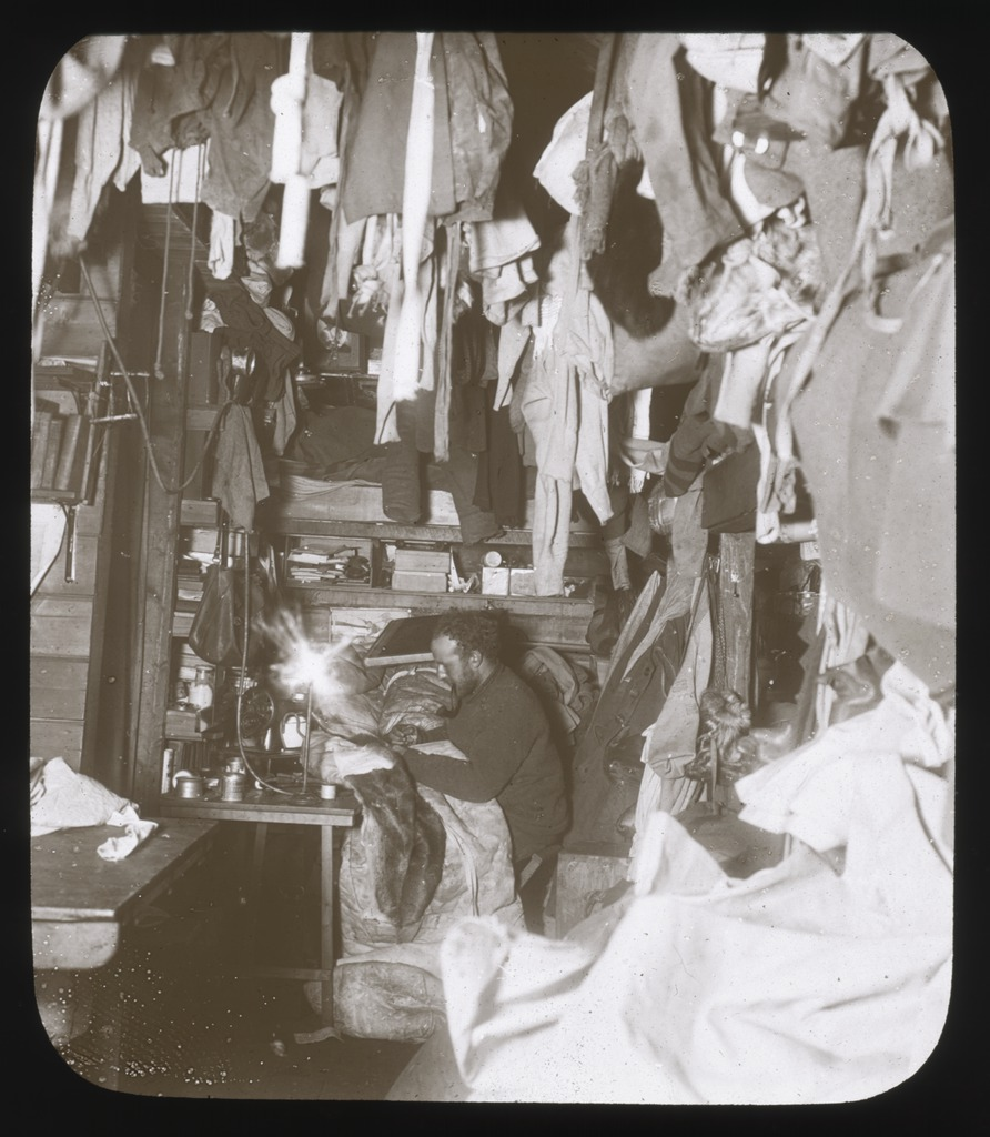 Hurley, Frank, 1885-1962. Part of the John George Hunter collection of photographs of Antarctica, 1911-1914.; Condition: Broken corner.; The bunks in two tiers around the wall are almost hidden by the clothing hanging from the ceiling, Adelie Land.; Published in: The home of the blizzard / by Douglas Mawson. London : William Heinemann, 1915, v. 1 facing p. 138. Persistent URL .au/nla.pic-an23323352